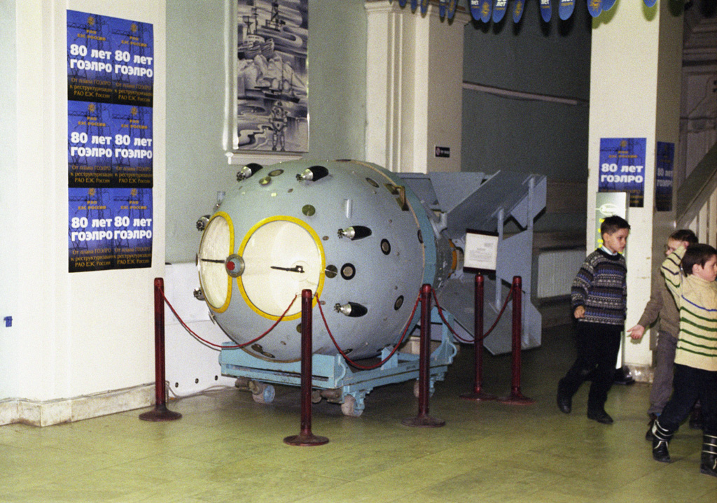 “Display at "80th Anniversary of GOELRO" exhibition”. A display at the "80th Anniversary of GOELRO (the Rusian abbreviation for the State Commission for Electrification of Russia)" exhibition in the Polytechnic Museum in Moscow. 2000.